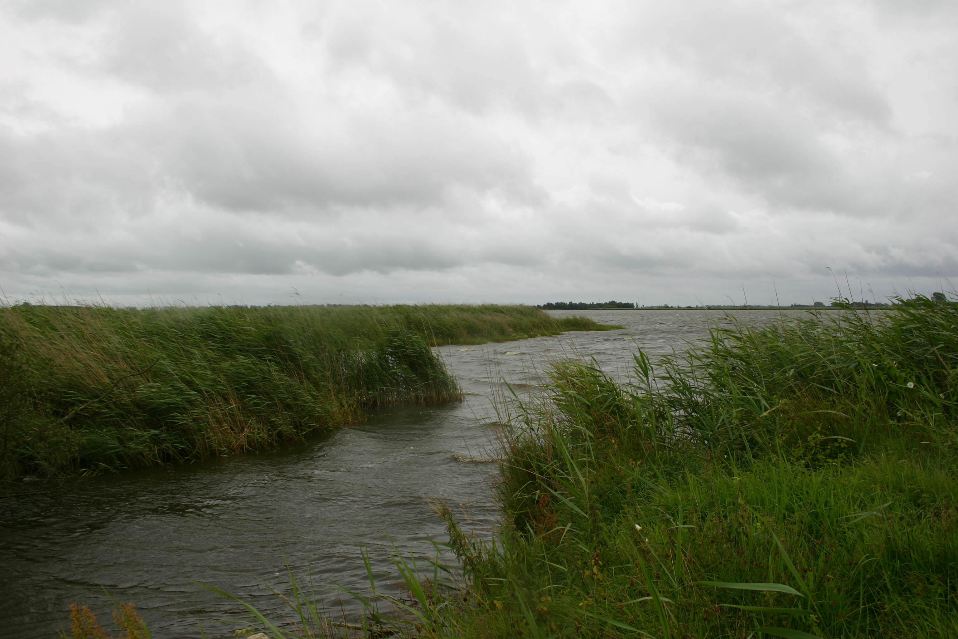 Shore of the Großes Meer (lit. Big Lake) in the community of Südbrookmerland, district of Aurich, East Frisia, Germany